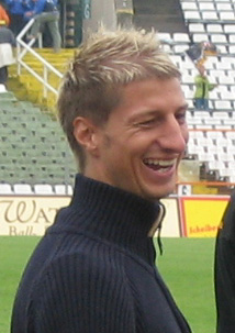 Marco Vorbeck. A football player from Germany. The picture was taken after the match of Dynamo Dresden vs. Holtein Kiel at the Rudolf-Harbig-Stadion. Vorbeck did not play due to an injury.